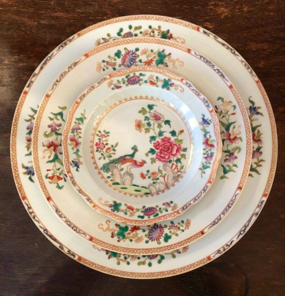 Author: Claudio André de Castro Source: A picture taken in my house from plates that are part of my collection.